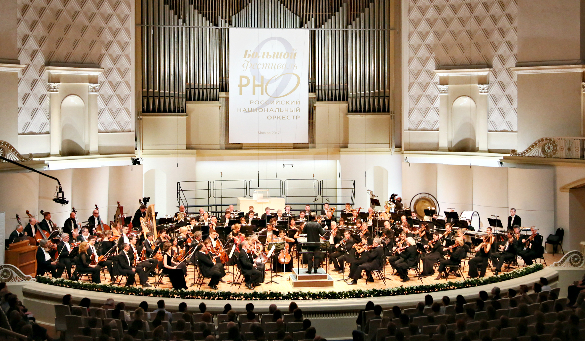 RNO - Russian National Orchestra